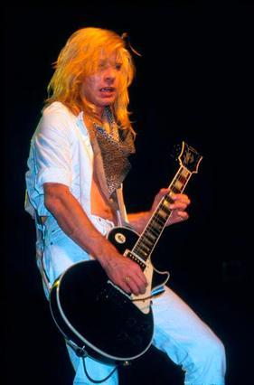 Steve Clark with a Gibson Les Paul